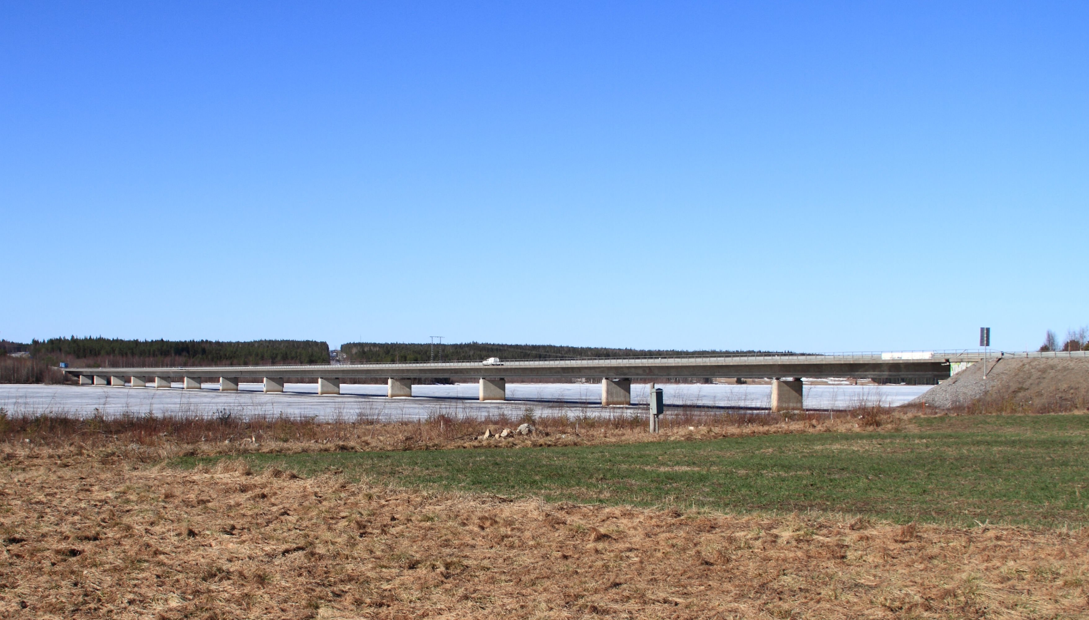 Side view of Nya Gäddviksbron over Lule River in Norrbotten, Sweden. View from east bank.